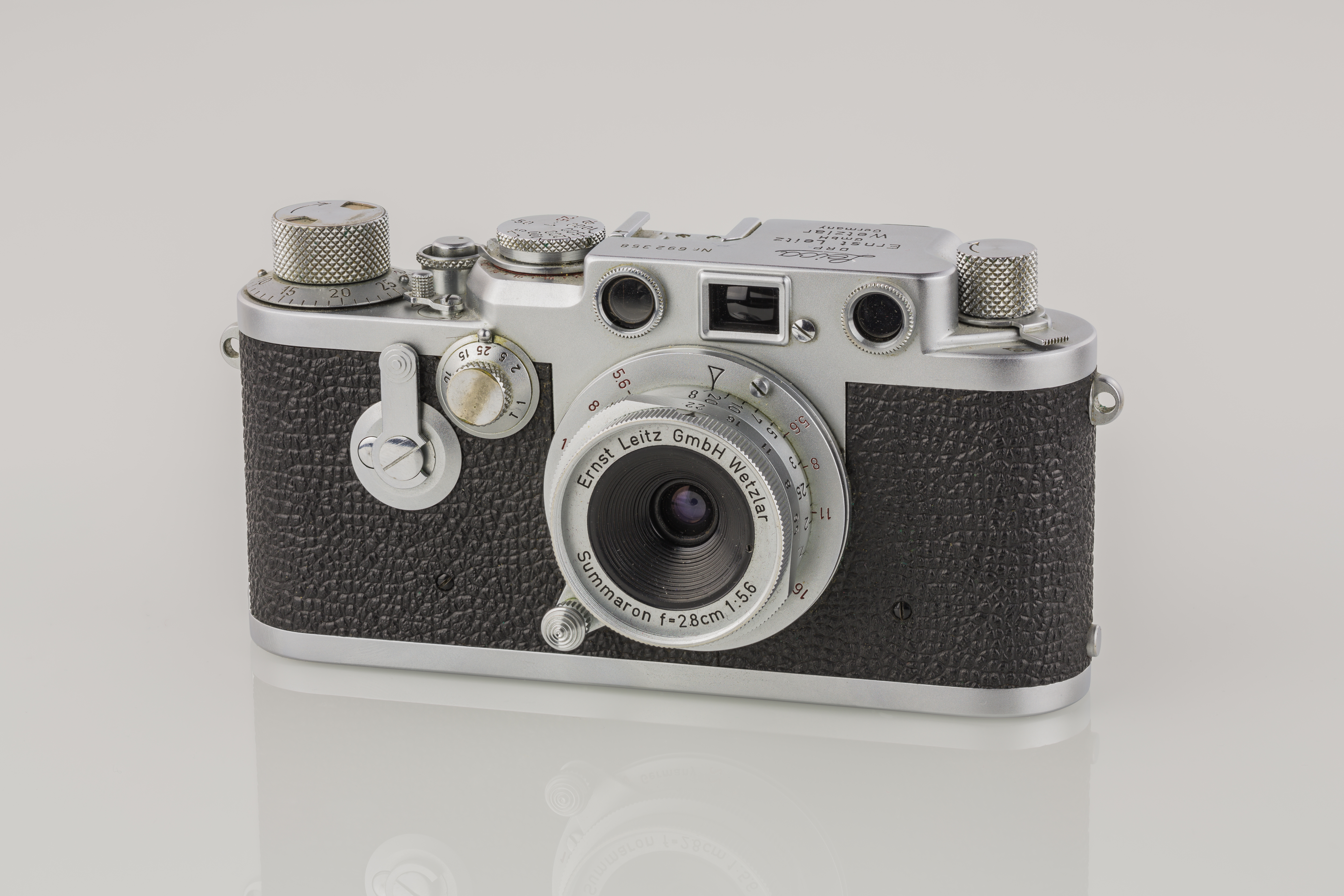 Leica IIIf Red Dial with self-timer Sn. 692358 - M39, 1954 - Mount: M39